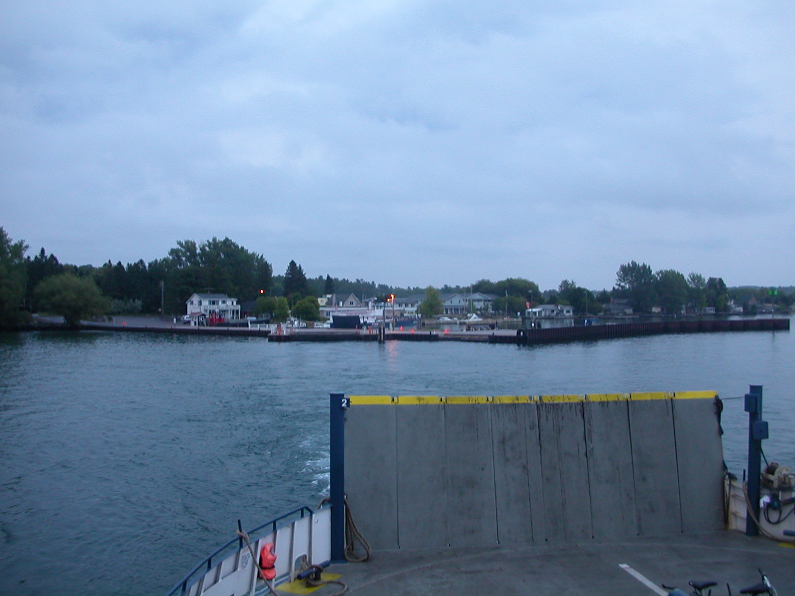 Ferry to Madeline Island, Summer 2005